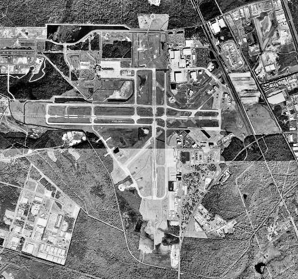 Aerial image of Savannah/Hilton Head International Airport